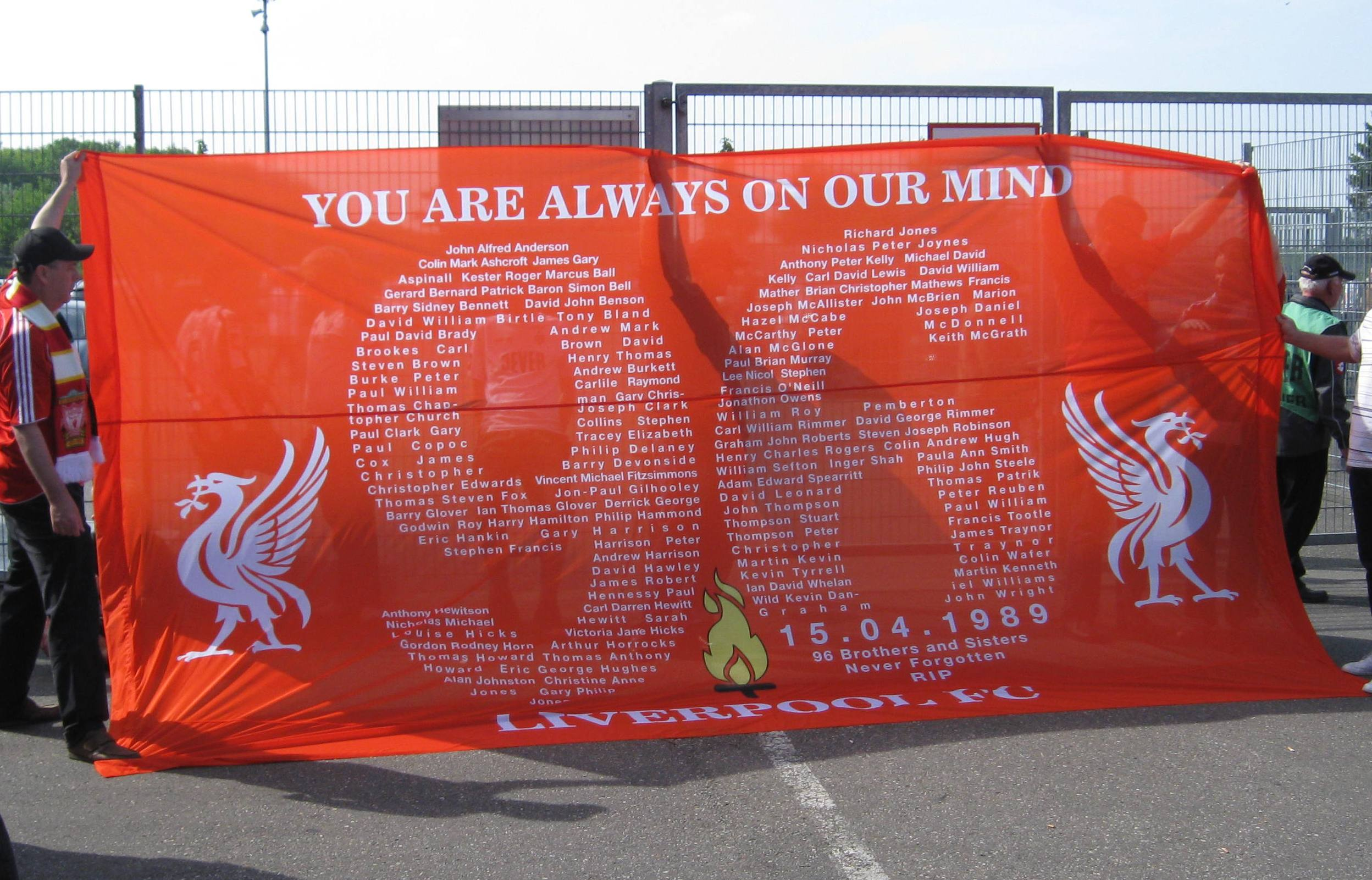 Banner 20th anniversary of Hillsborough tragedy